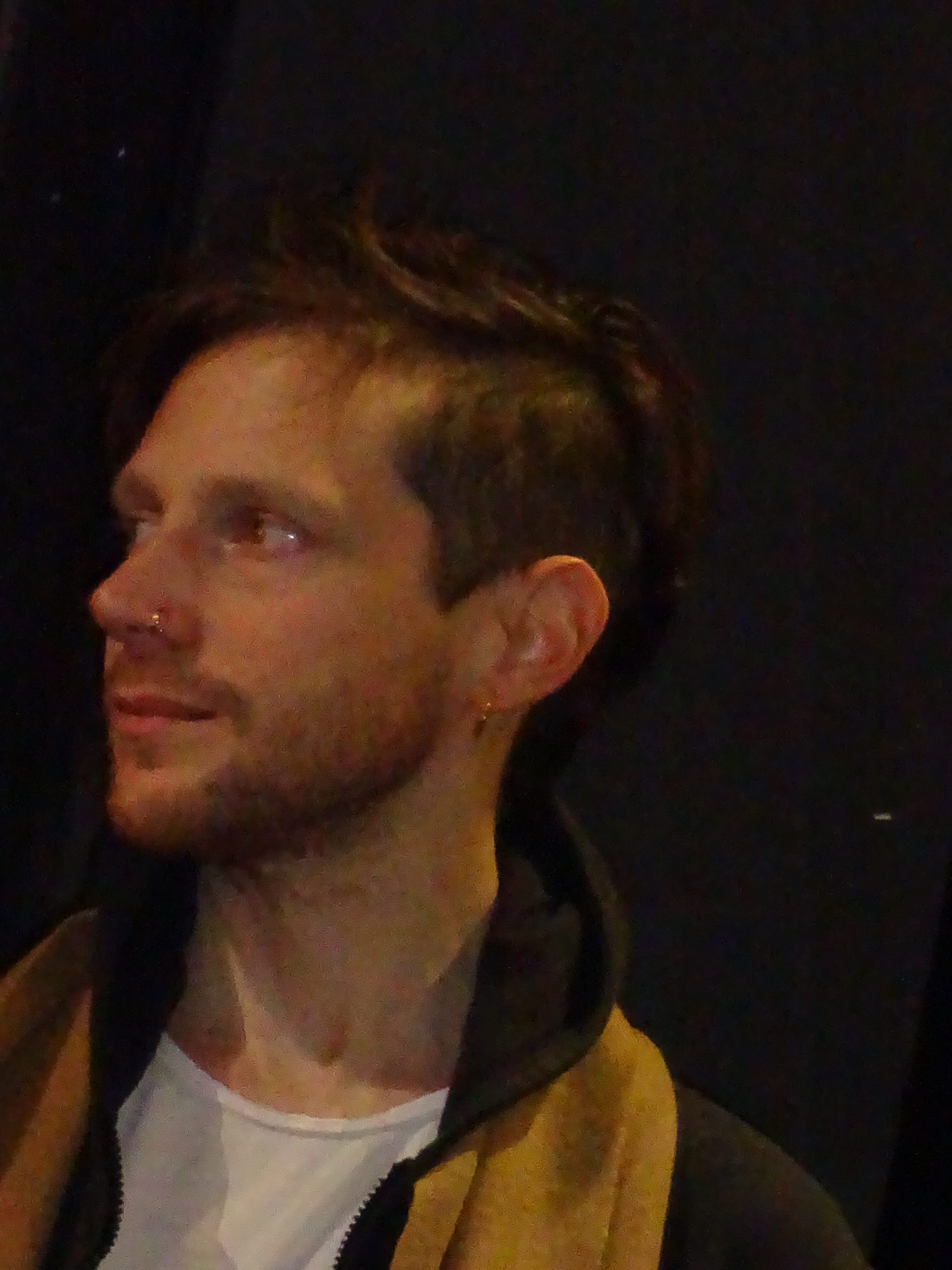 French film director Adrien Mérigeau at a Q&A at Berlinale 2020, Berlin, in February 2020